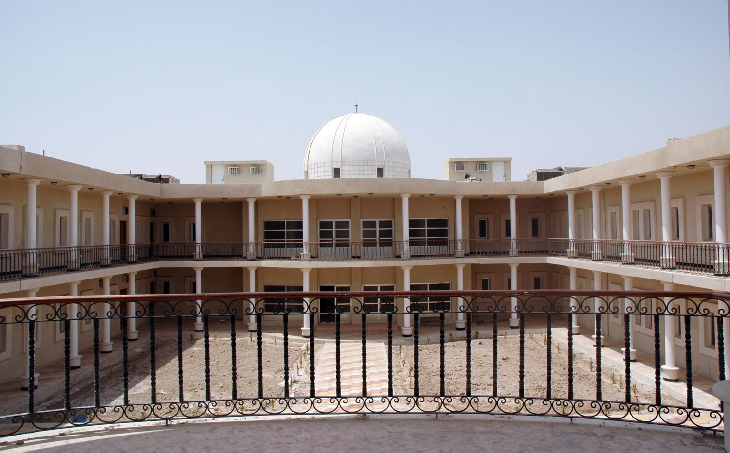 The local Iraqi construction crew is making progress on the new Shatt Al Arab Courthouse in Al Tonoma, Basrah Province.